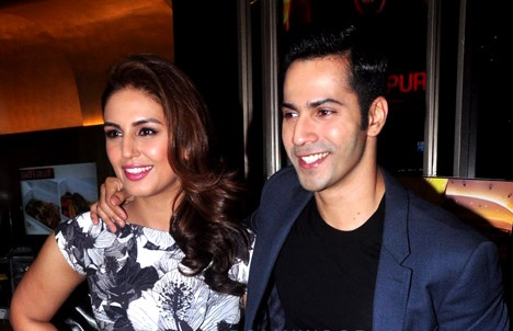 Varun Dhawan & Huma Qureshi at Trailer launch of 'Badlapur'